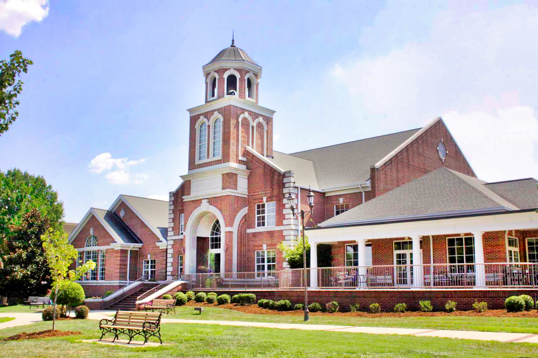 Lee University